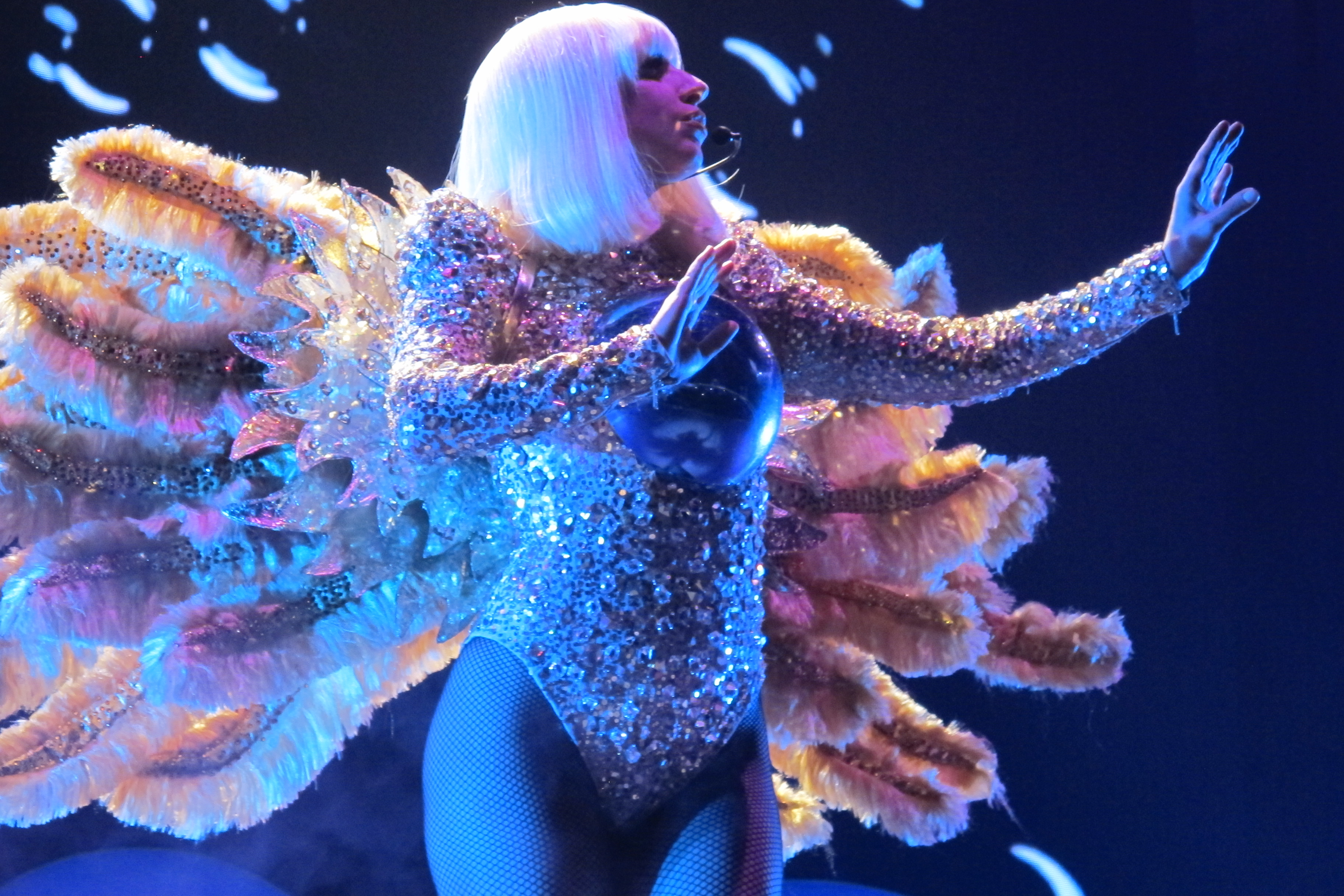 IMG_8145 Lady Gaga performing at ArtRave: The Artpop Ball of San Diego